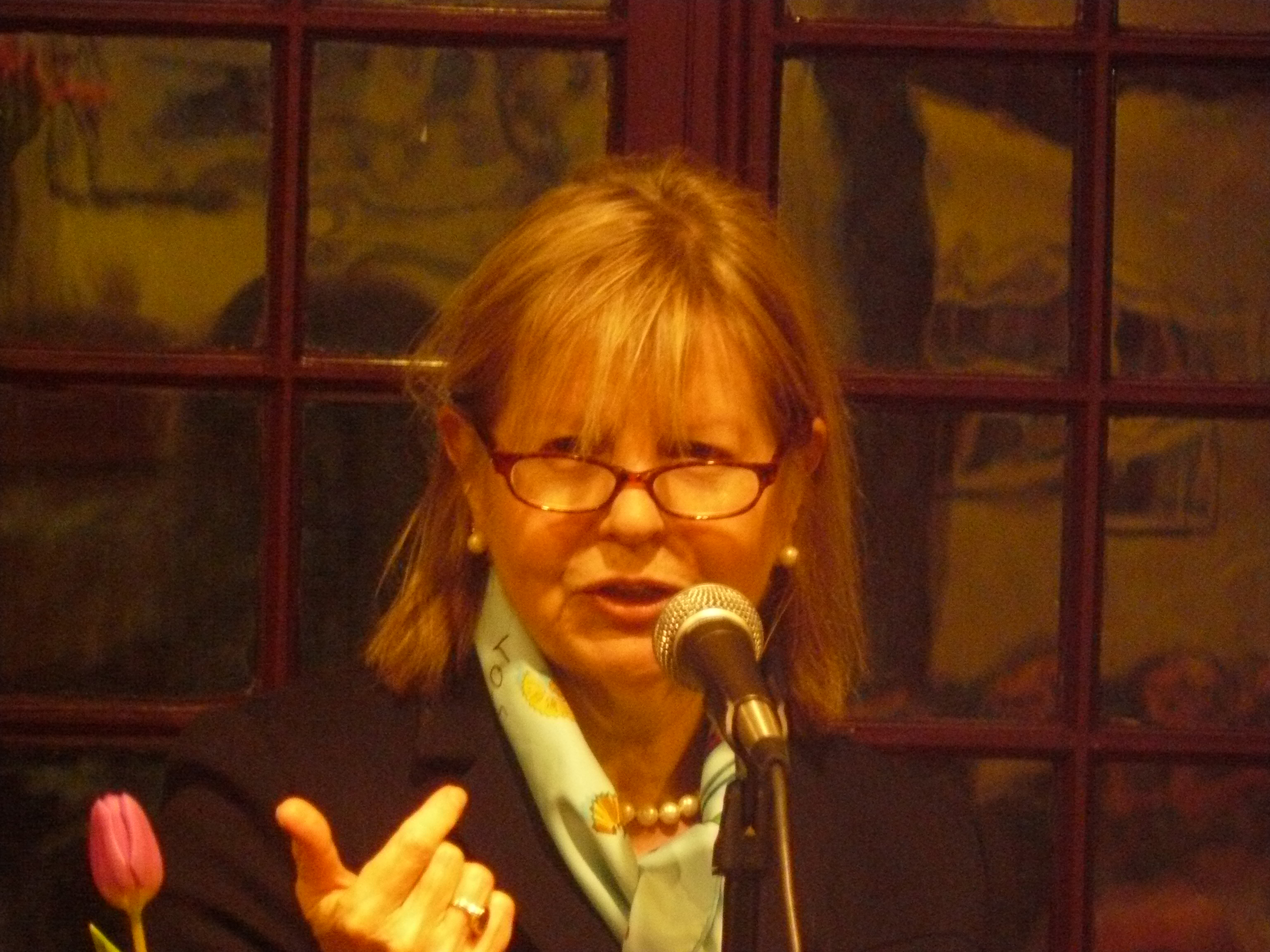 February 14, 2011 KWH Calendar